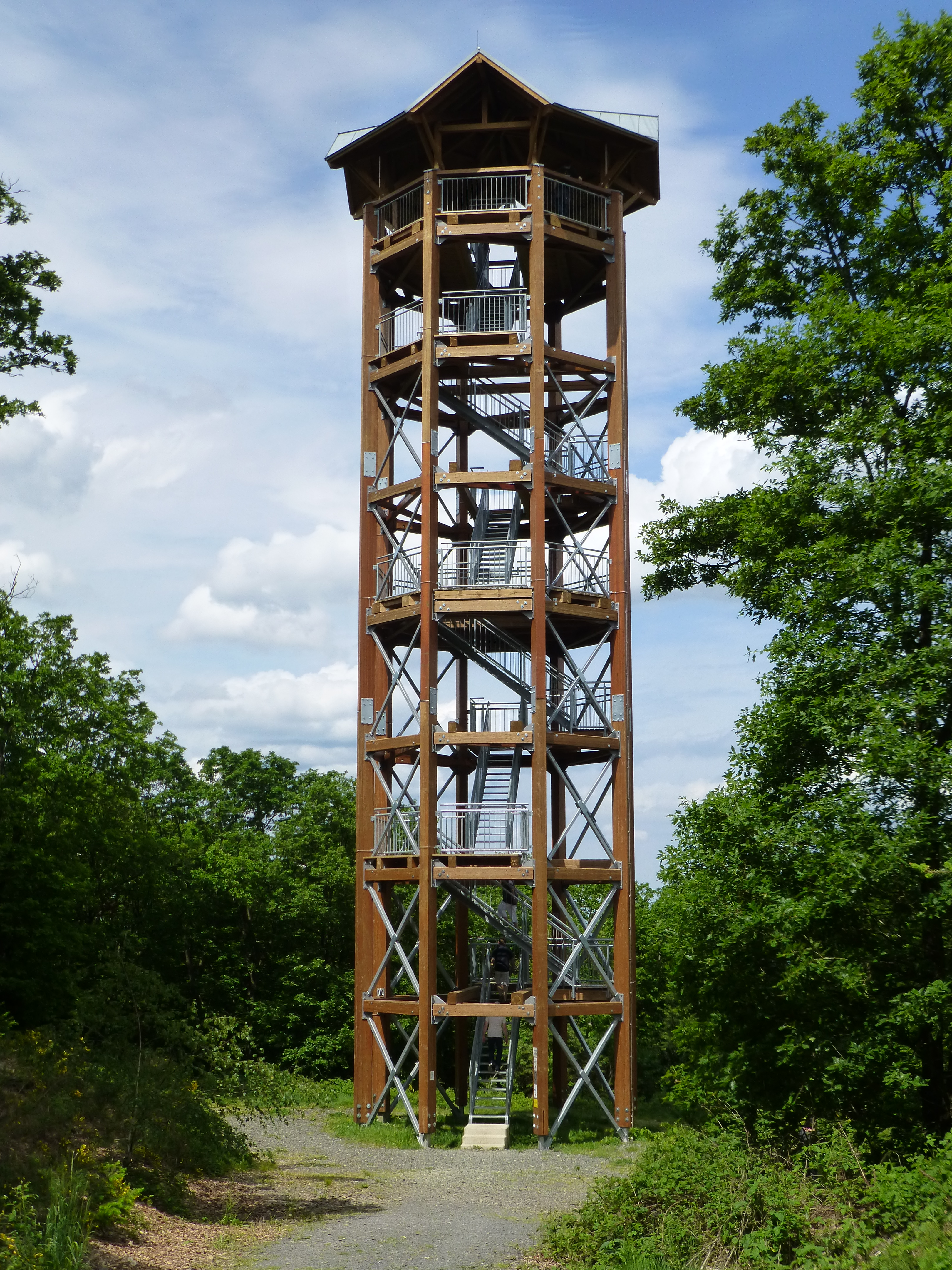 Observation Tower „Fünfseenblick“ (Views on five lakes) near Bad Salzig